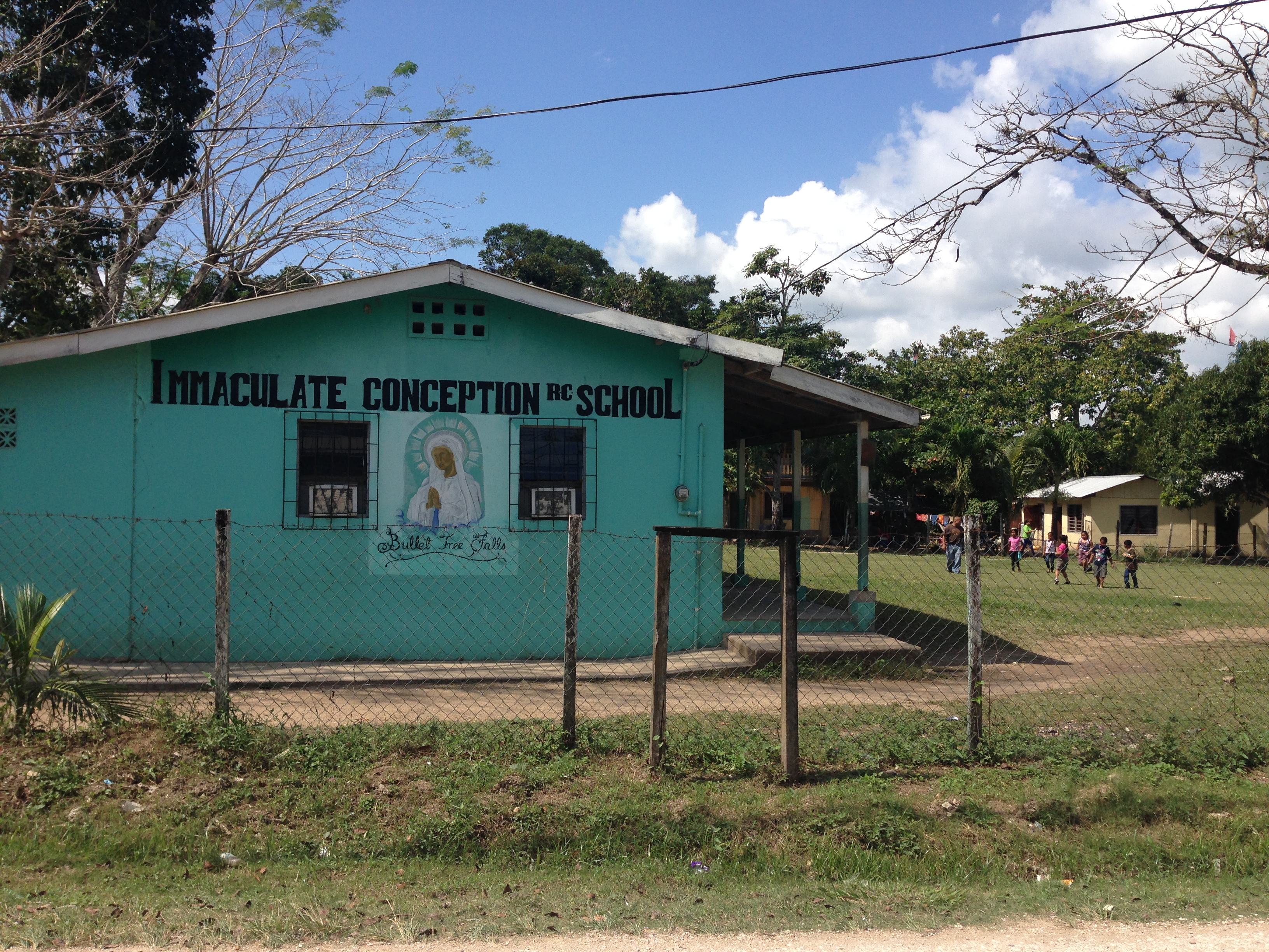 Immaculate Conception Roman Catholic School in Bullet Tree Falls, Belize